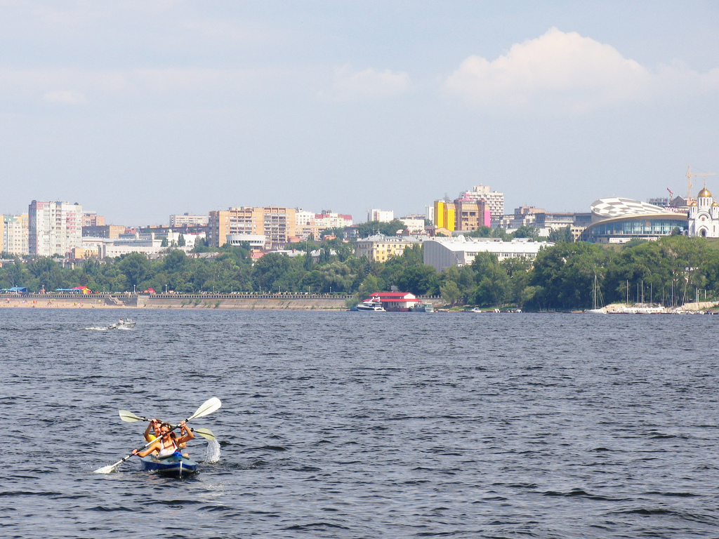 Samara - View from Volga, Samarskaya Oblast, Russia.